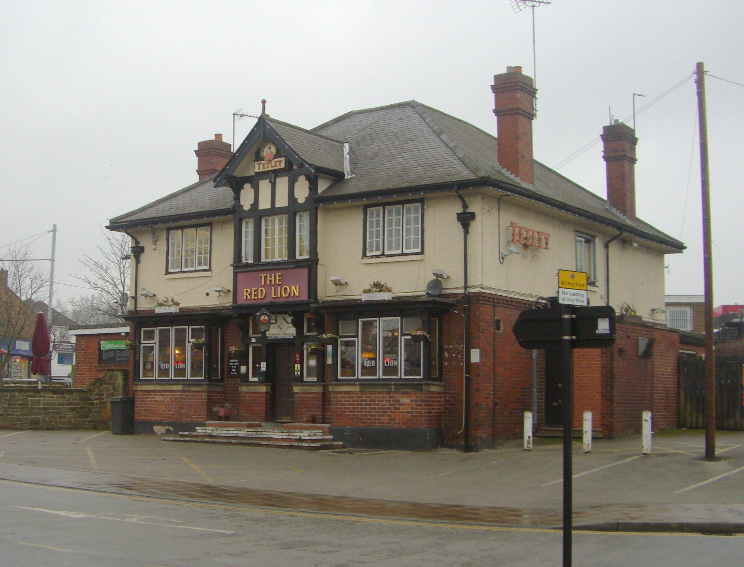 The Red Lion Public House at Gleadless Townend in Sheffield